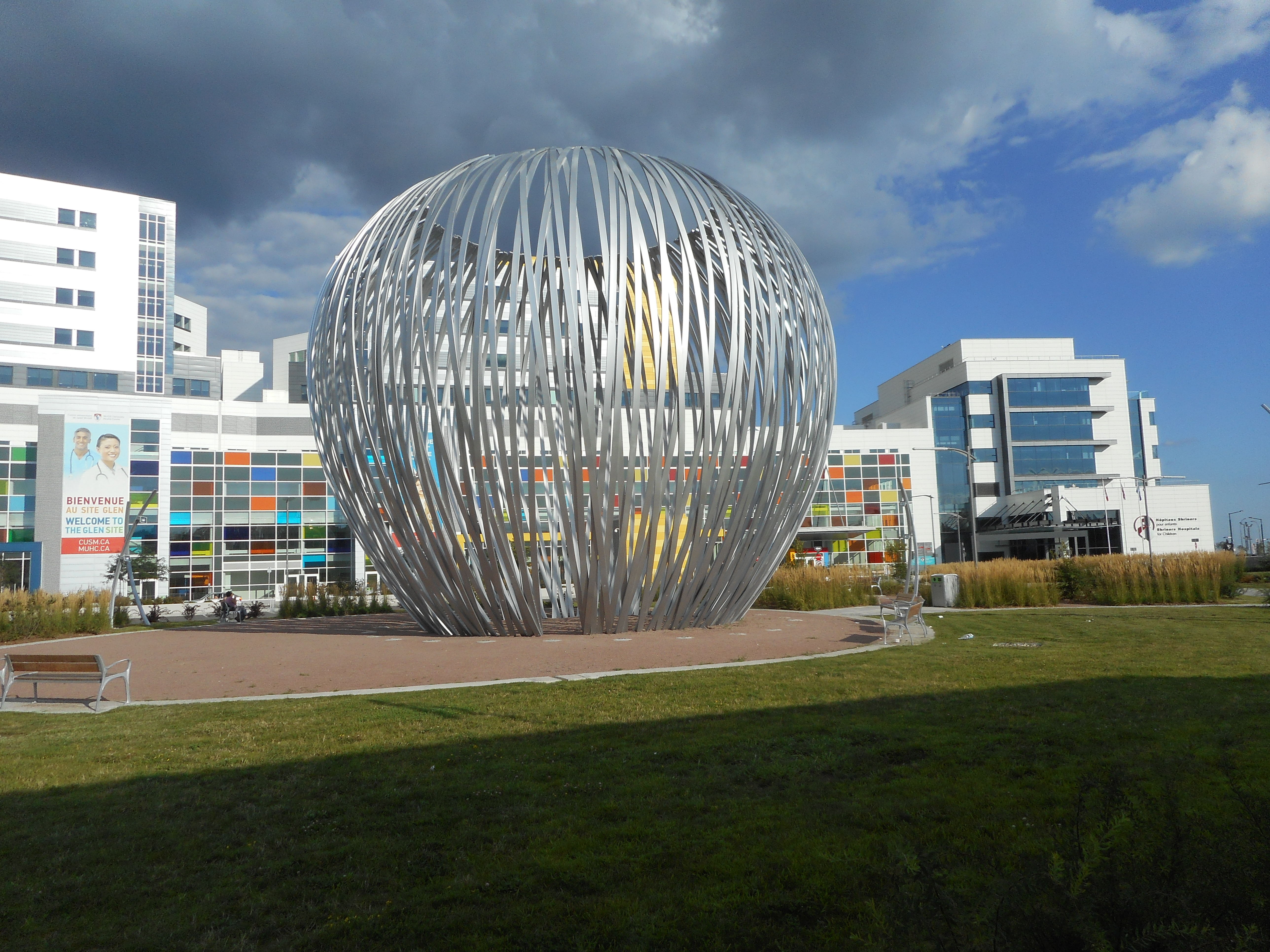 McGill University Health Centre, MUHC's Glen site